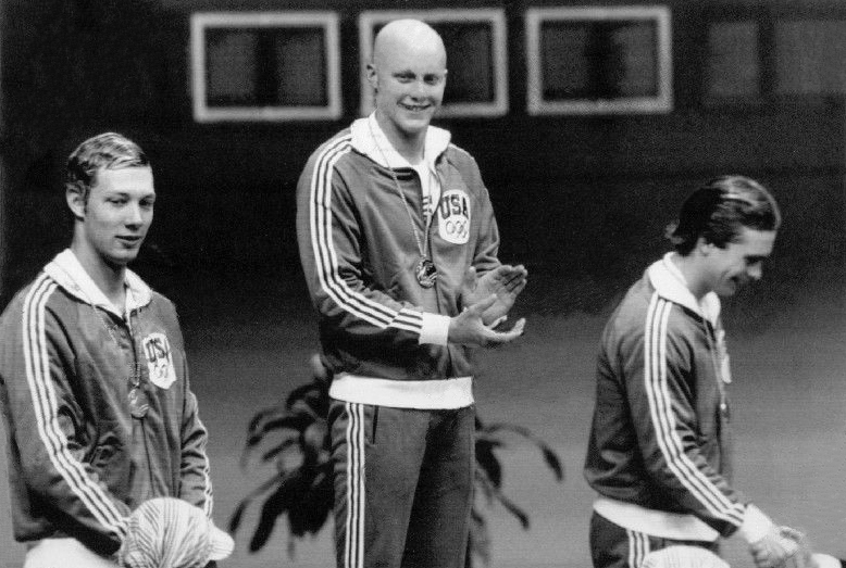 1976 Olympic Swimmers Mike Bruner & Steven Gregg & Billy Forrester Press Photo